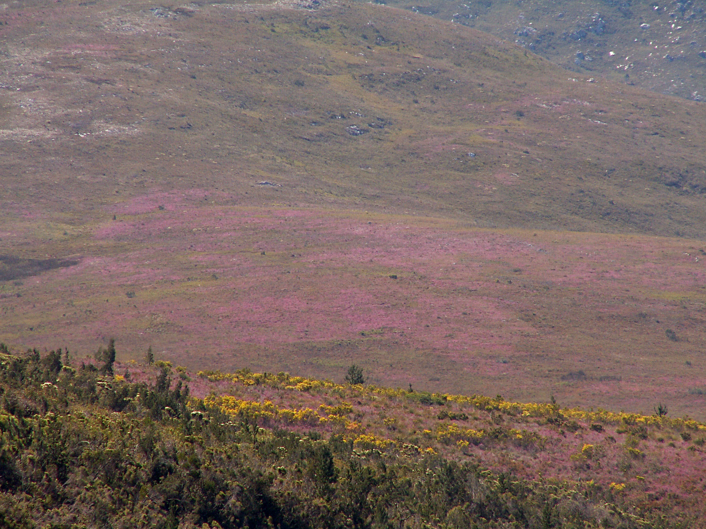 Grootvadersbosch Nature Reserve in the Barrydale area of the Langeberg Range, Western Cape, Southafrica